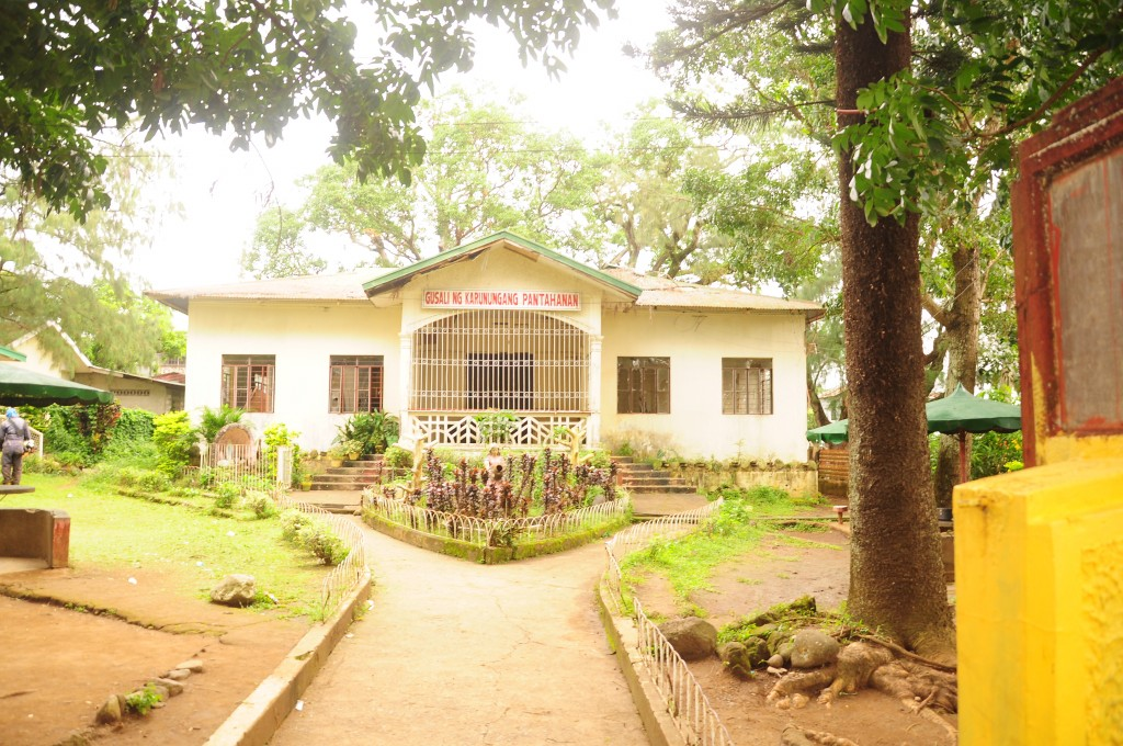 Home Economics Building of Sariaya East Elementary School, Sariaya, Quezon